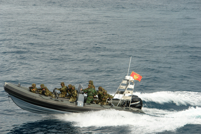 Montenegrian Military inflatable boat